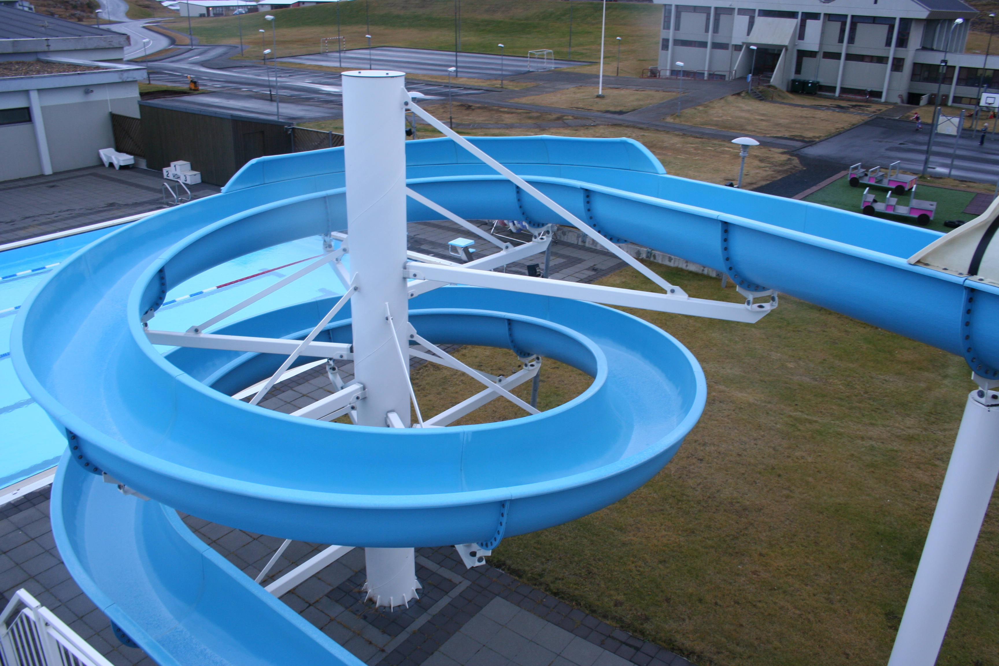 A picture of the water slide at Sundlaug Stykkishólms.